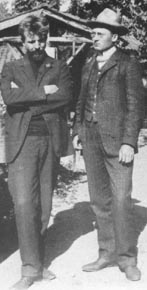 Carl Gustav Jung and Otto Gross